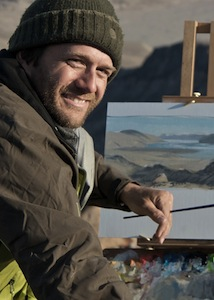 Portrait of Cory Trepanier, Canadian landscape artist Cory Trepanier